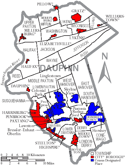 Map of Dauphin County, Pennsylvania, United States with township and municipal boundaries